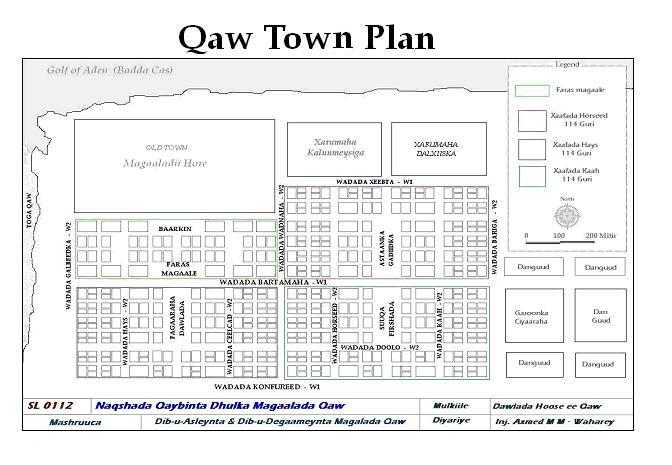 Qaw (Bandar Siyada) town plan. Designed by engineer Ahmed M Moalin .